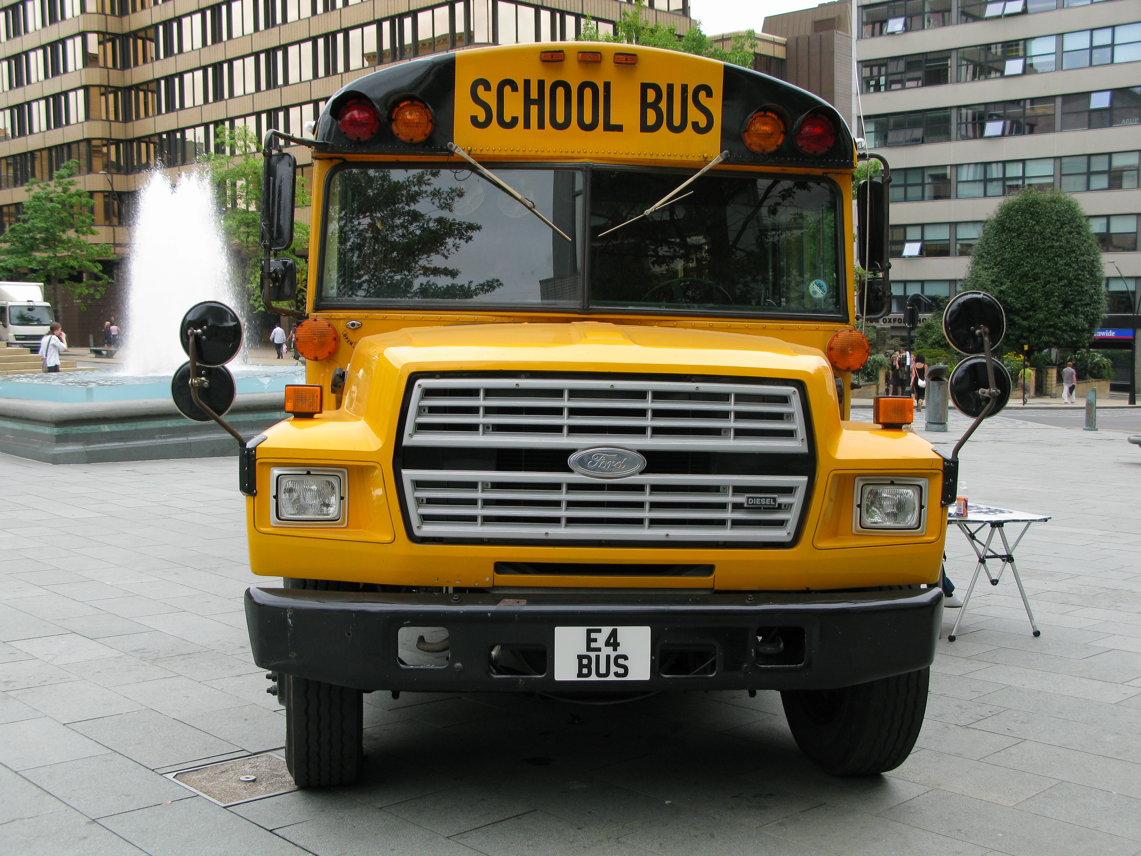 Retired 1980s Thomas Conventional school bus on Ford B-Series chassis. Bus is located in Sheffield, England, United Kingdom.